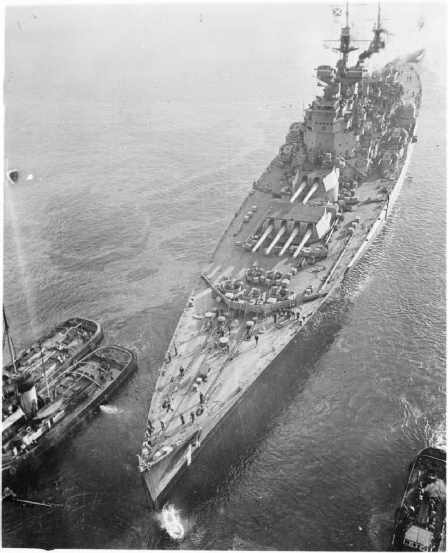 The Royal Navy during the Second World War View looking down on HMS DUKE OF YORK as she leaves drydock at Rosyth. The photograph was probably taken from the top of a crane and gives a good view of her forward deck arrangement.